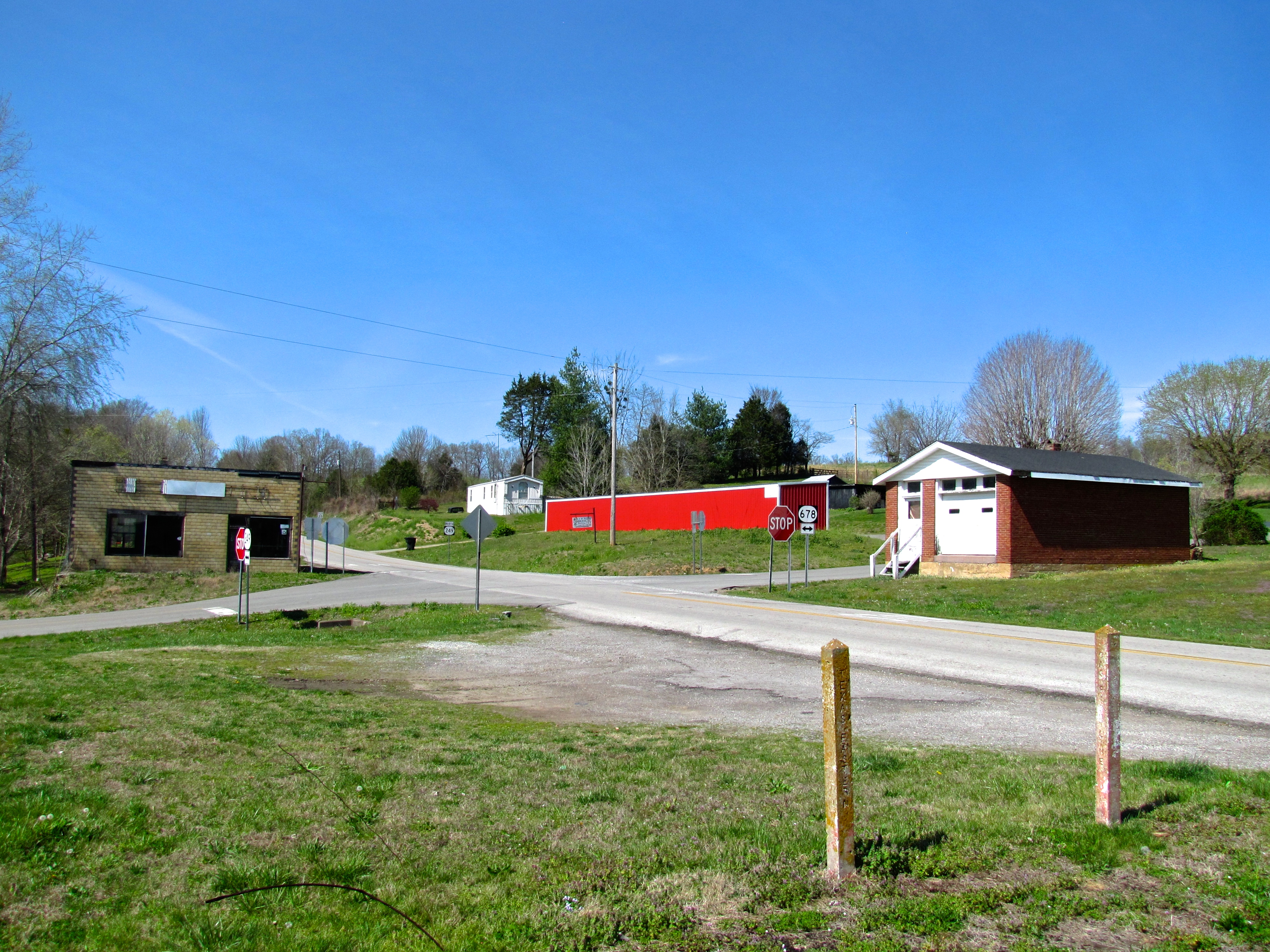 The intersection Kentucky Route 249 and Kentucky Route 678 in Flippin, Kentucky, United States.